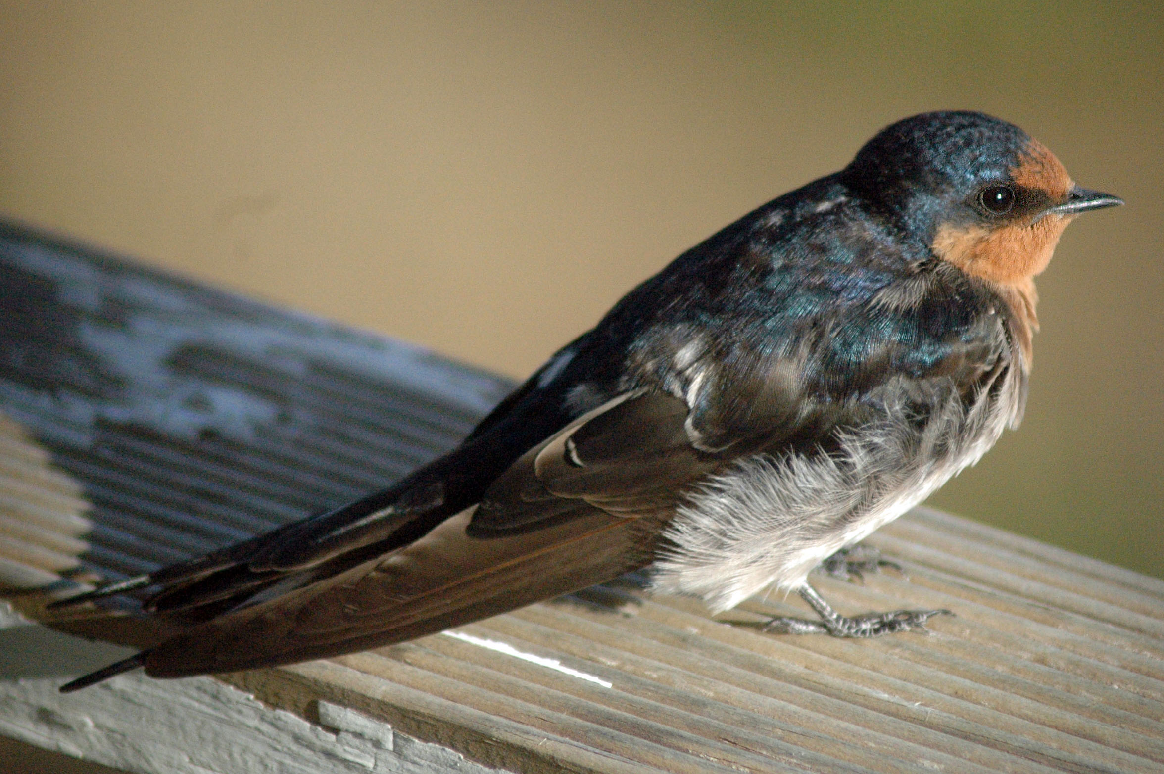 Welcome Swallow, Hirundo neoxena, summering in Tasmania.